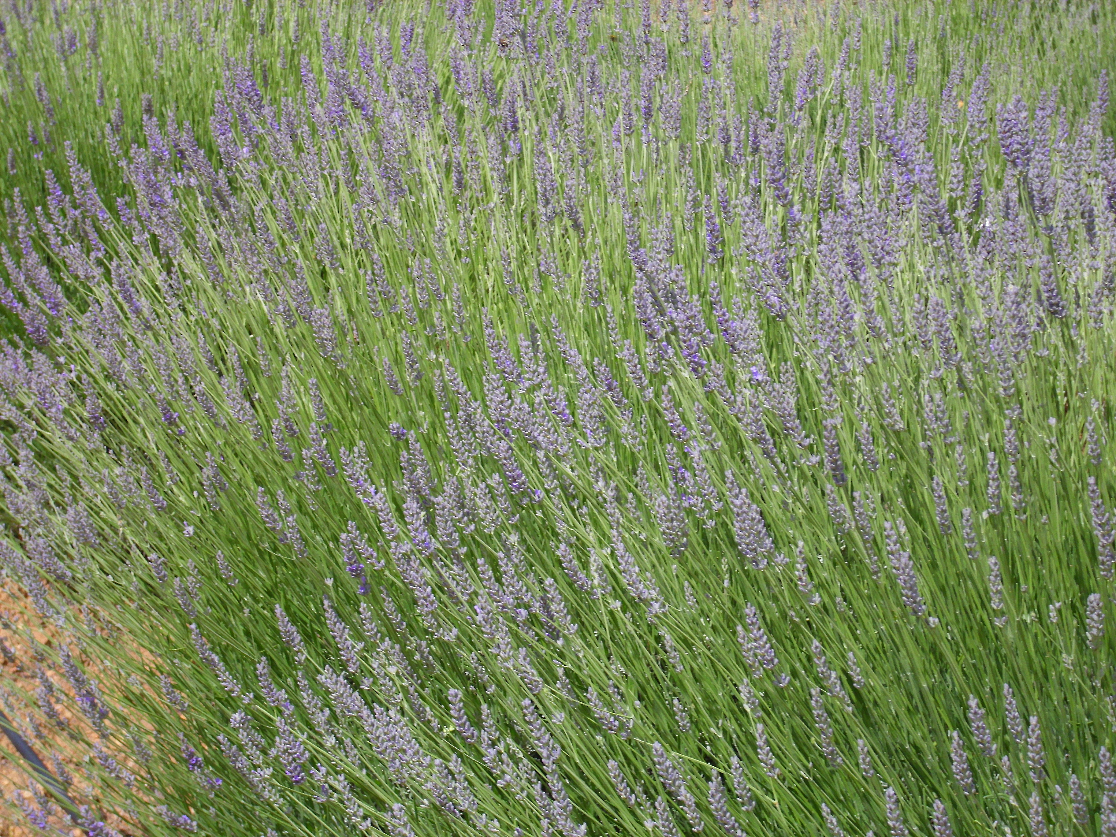 Lavandula latifolia habit, Dehesa Boyal de Puertollano, Spain